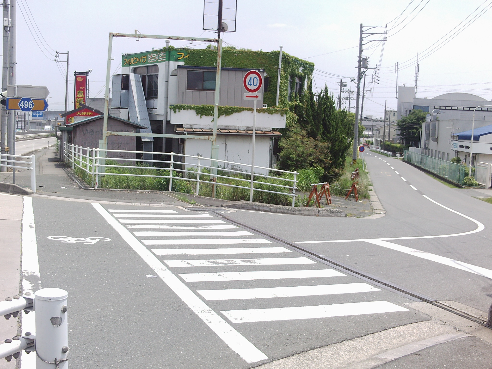 Aichi prefectural road No.496 in Shirotoricho, Toyokawa, Aichi.